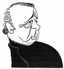 Jaume Collell i Bancells, in La Esquella de la Torratxa magazine of 8.5.1908